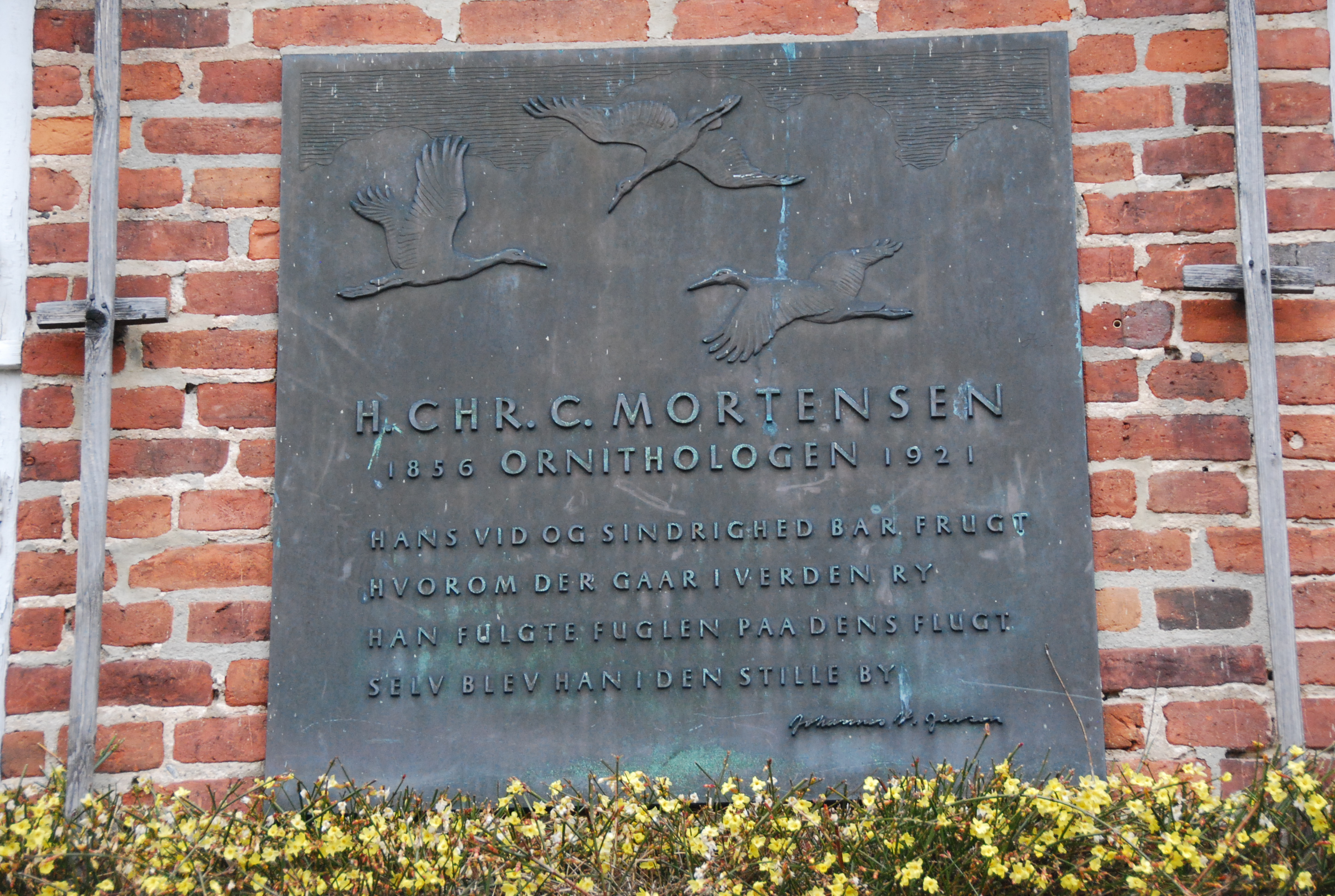 Memorial tablet for Hans Christian C. Mortensen, placed in Latingarden, Viborg